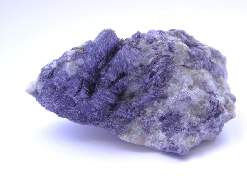 Dumortierite Locality: Dehesa, Alpine, San Diego Co., California, USA Specimen size 6x3 cm. Ex Kidwell collection. Specimen and photo Leon Hupperichs.